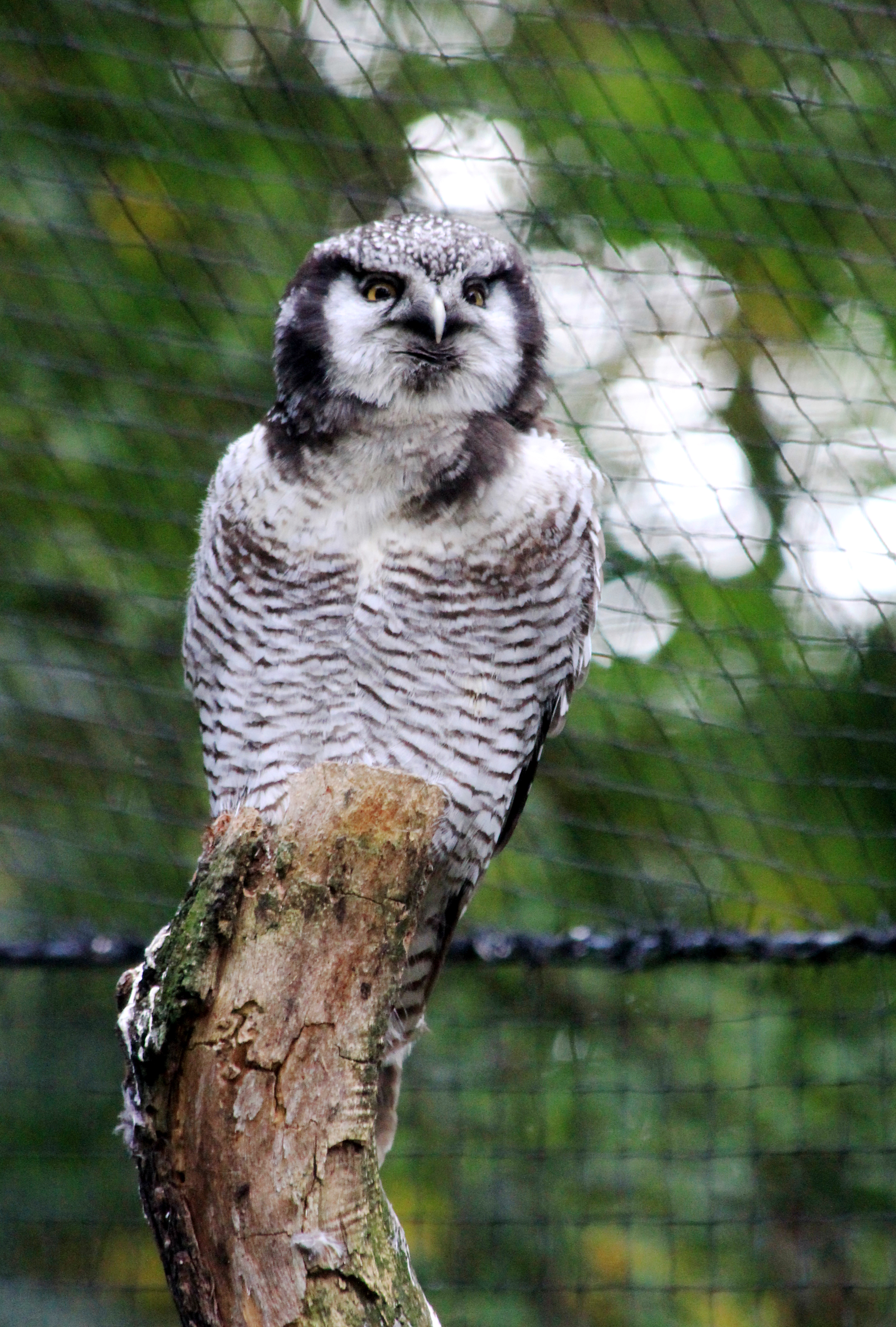 Northern Hawk-Owl (Surnia ulula) in Prague Zoo, Czech Republic Česky: Sovice krahujová v Pražské zoologické zahradě